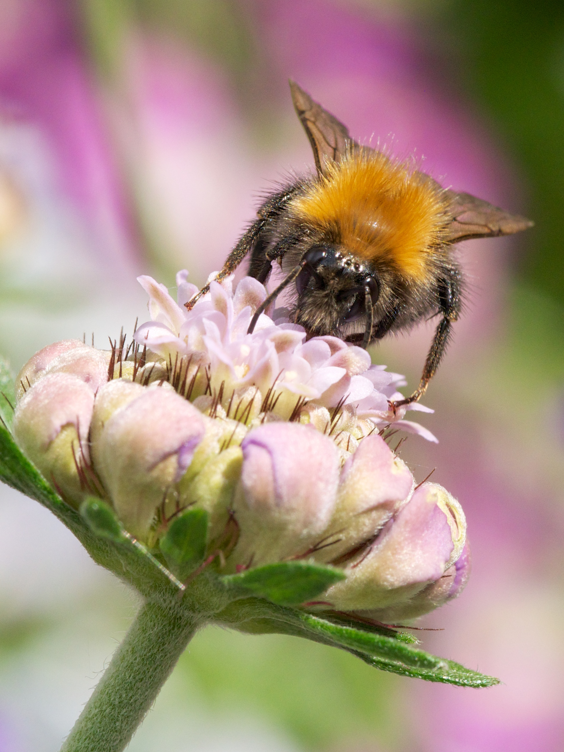 A tree bumblebee or new garden bumblebee (bombus hypnorum) on a scabiosa flower